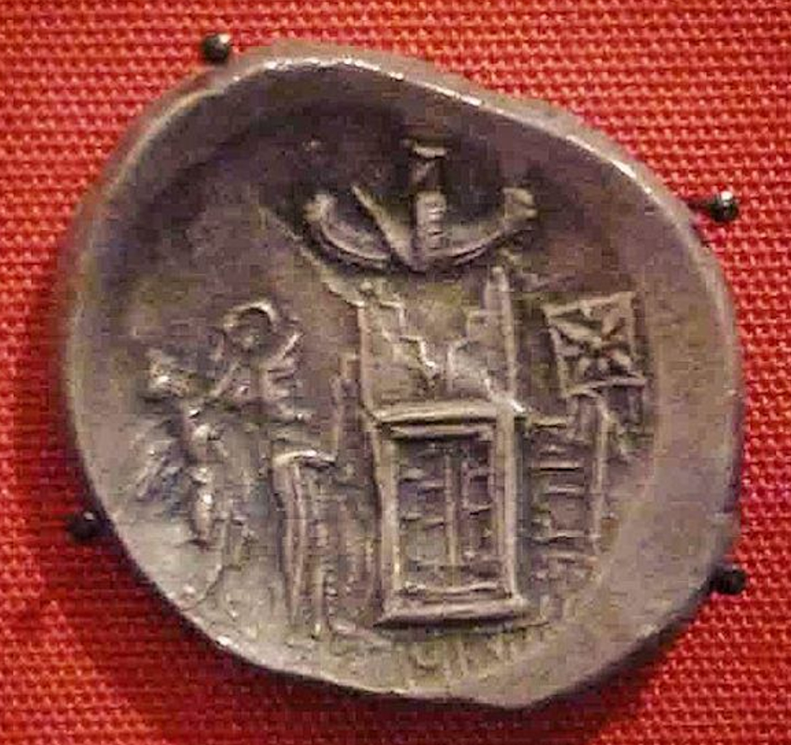 Silver tetradrachm Iran c. 280-100 BC The kings of Persis Vadfradad I coin